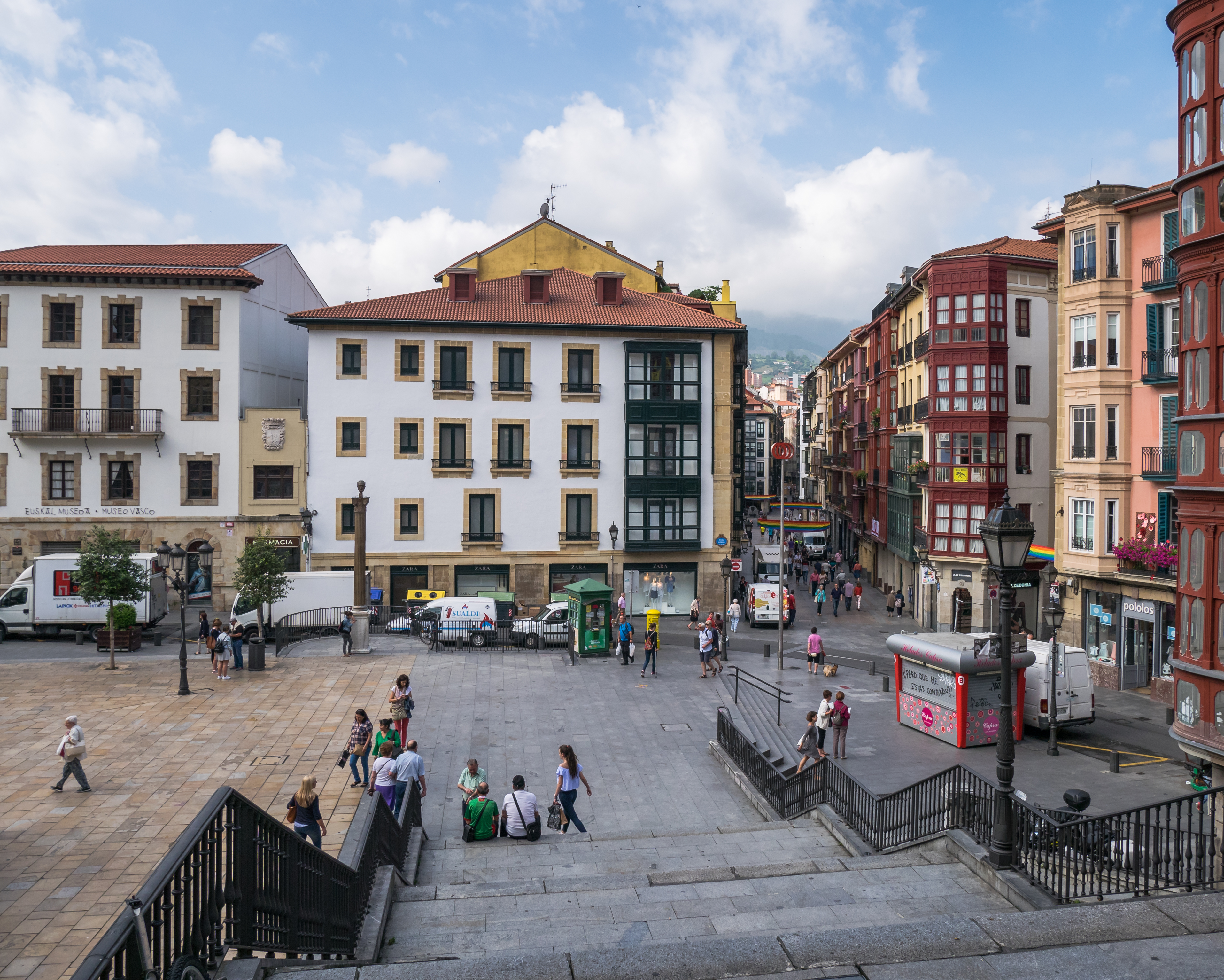 Unamuno Square in Bilbao, Biscay, Spain.